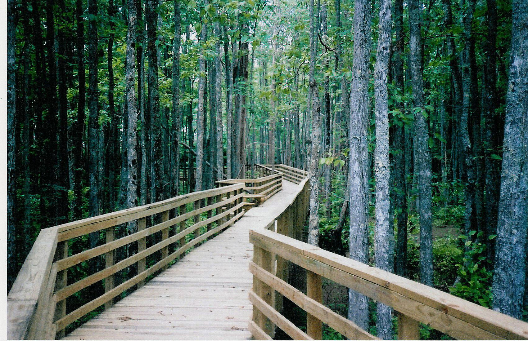 Boardwalk on the Wolf River in the William B. Clark, Sr., Nature Preserve (Nature Conservancy of Tennessee) in Rossville, Fayette County, Tennessee.